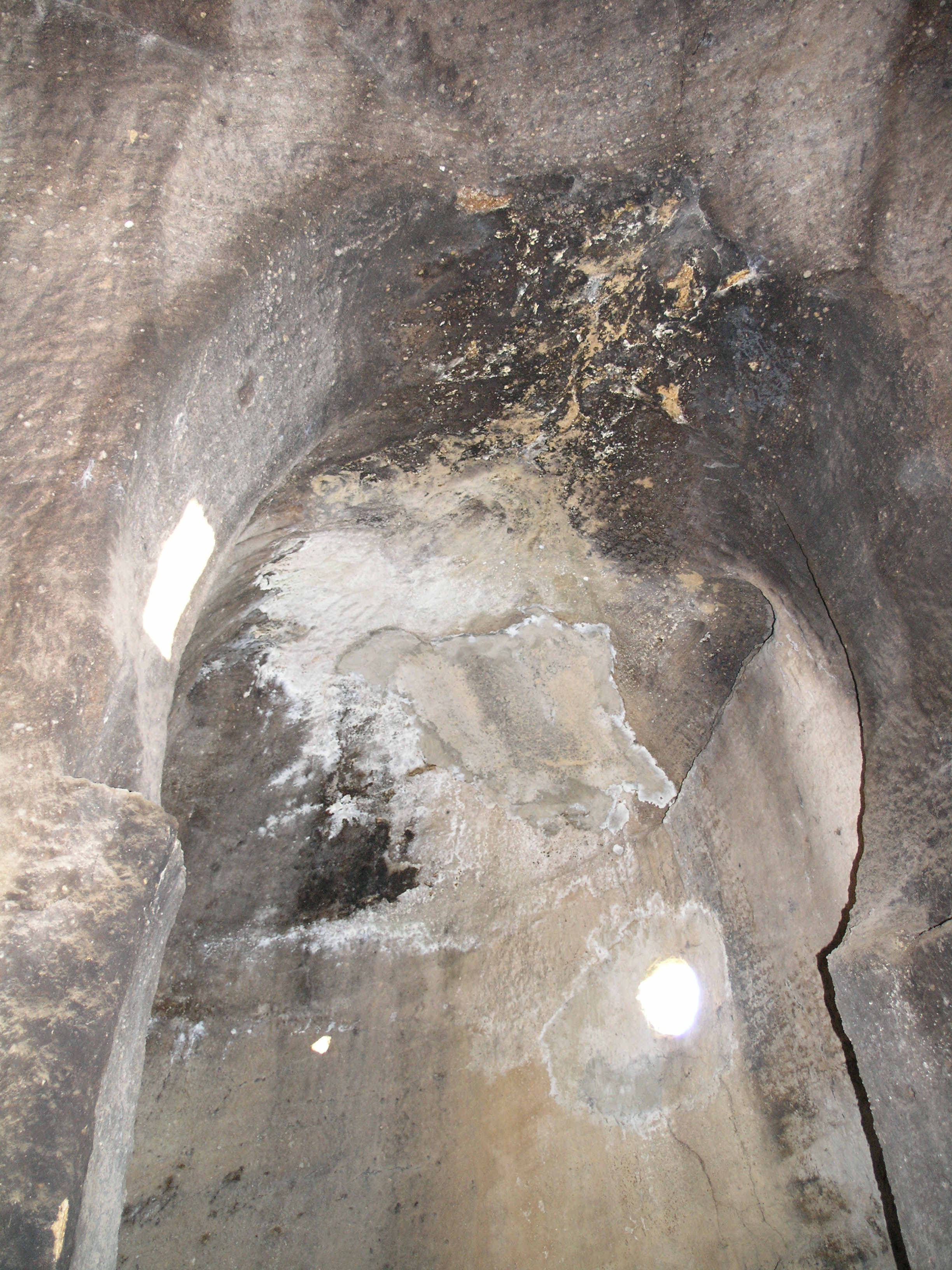 Chapel of Saints Acisclo and Vitoria (Arroyuelos, Spain). Cave church. Inside. Horseshoe arches, typical of Mozarabic architecture.